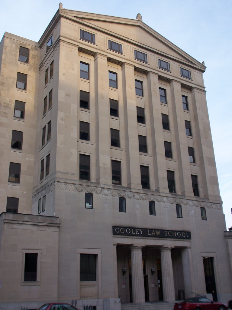 Cooley Law School